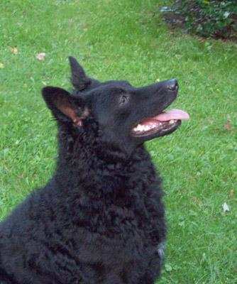 A black Mudi